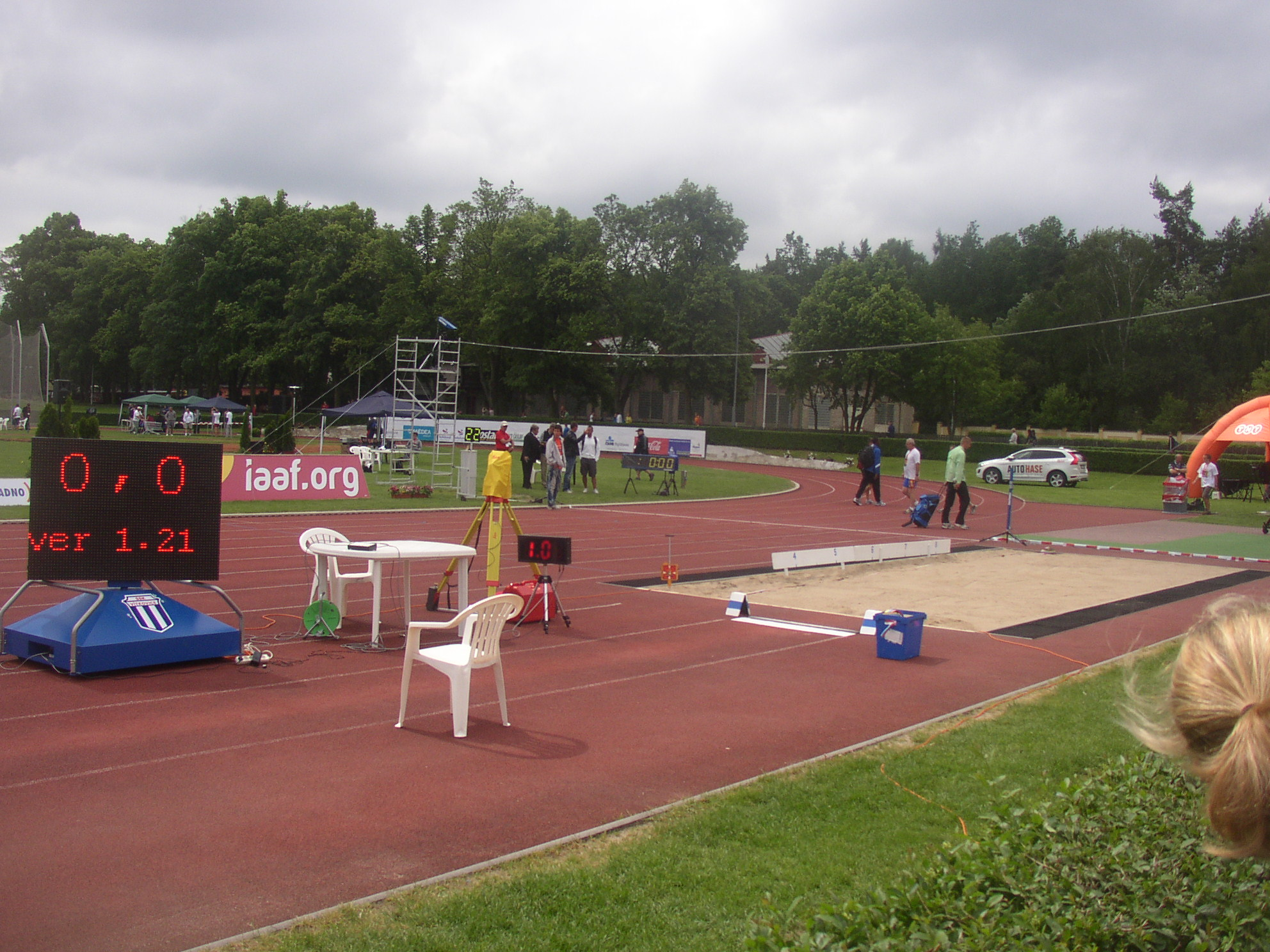 Long jump area, including end of run-up track, take-off board and landing sand pit, as seen shortly before women's long jump for heptathlon at 4th edition of the TNT - Fortuna Meeting (IAAF World Combined Events Challenge Meeting, Sletiště Stadium, Kladno, Czech Republic, 16 June 2010, 10:48).